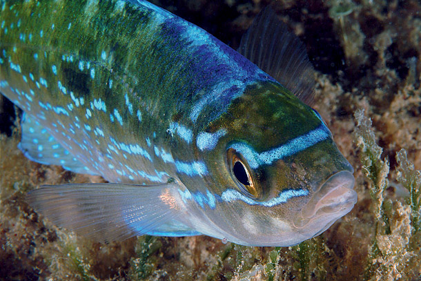 Maschio di Spicara maena (particolare della bocca) fotografato in Toscana. Foto di Stefano Guerrieri.